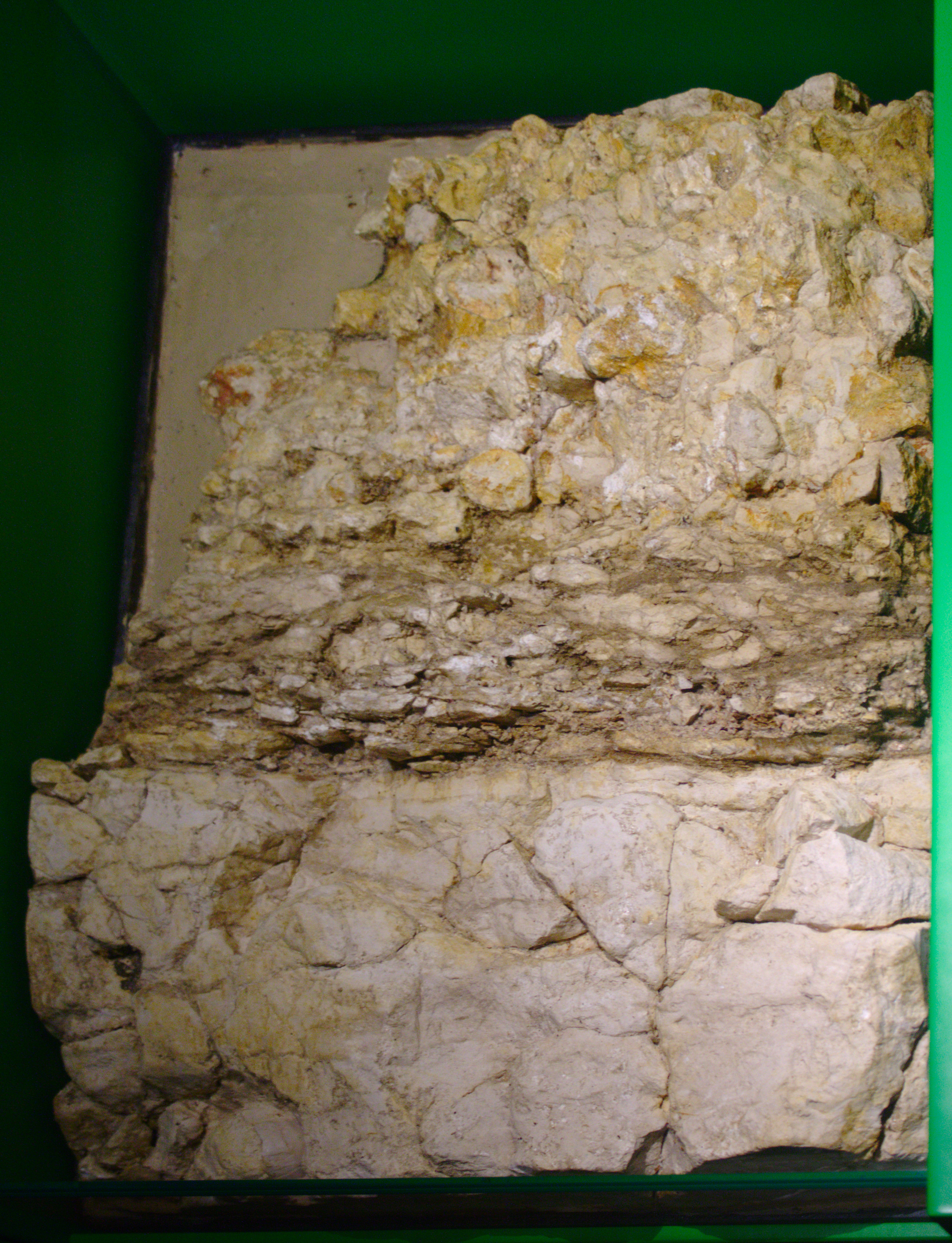 A K-T boundary rock sample in Natuurhistorisch Museum Maastricht